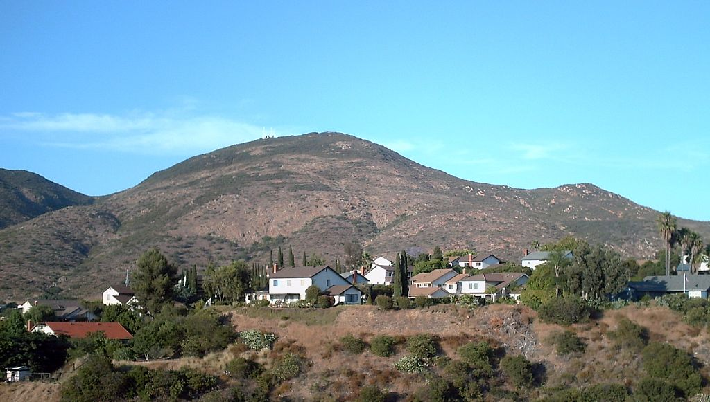 Cowles Mountain as seen from San Diego, taken from west-southwest of the peak from about 1-1/2 mile from the peak. Uploaded by the photographer. Photographer: Bob DuHamel